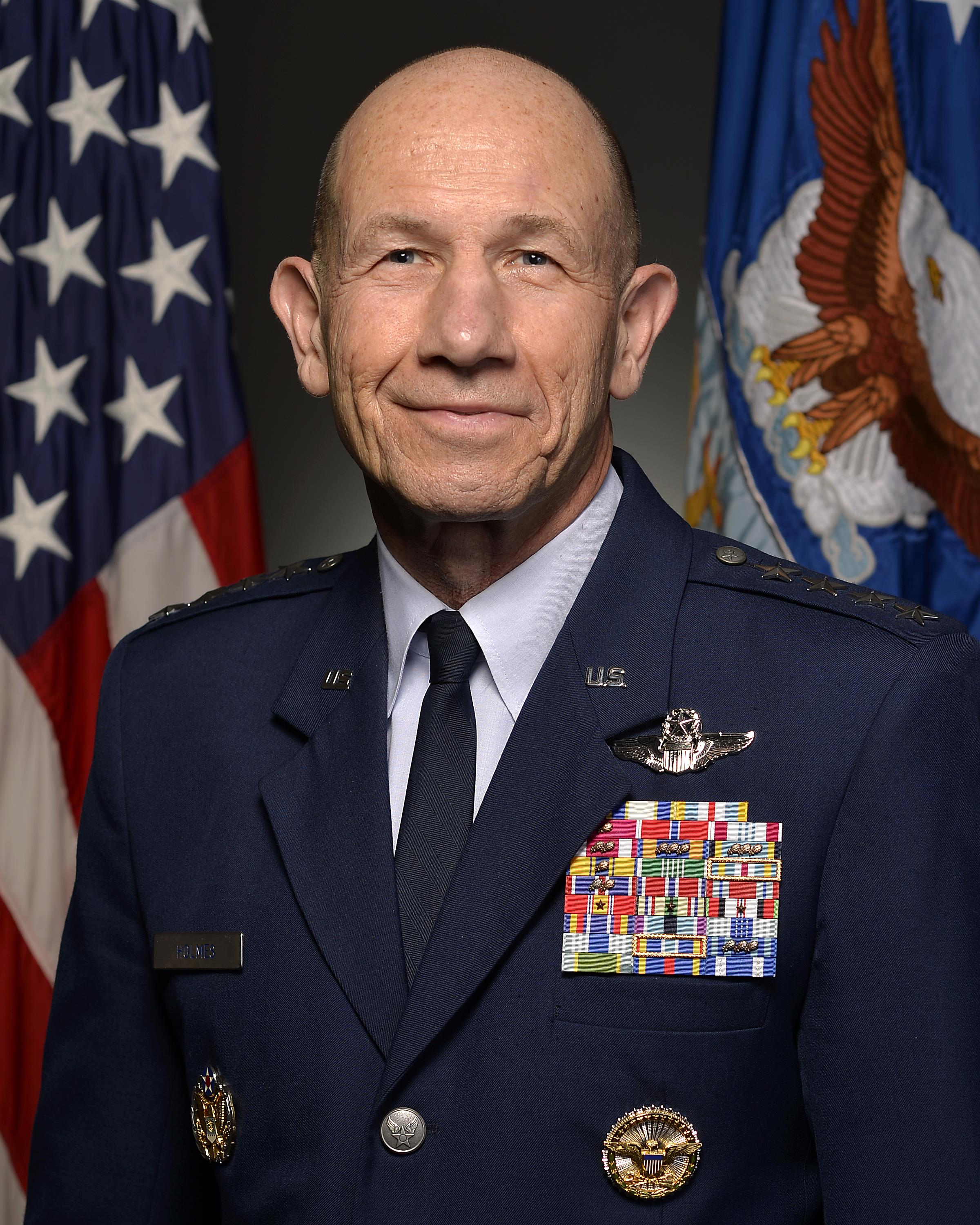 Commander, Gen. Holmes ACC, 10 March 2017